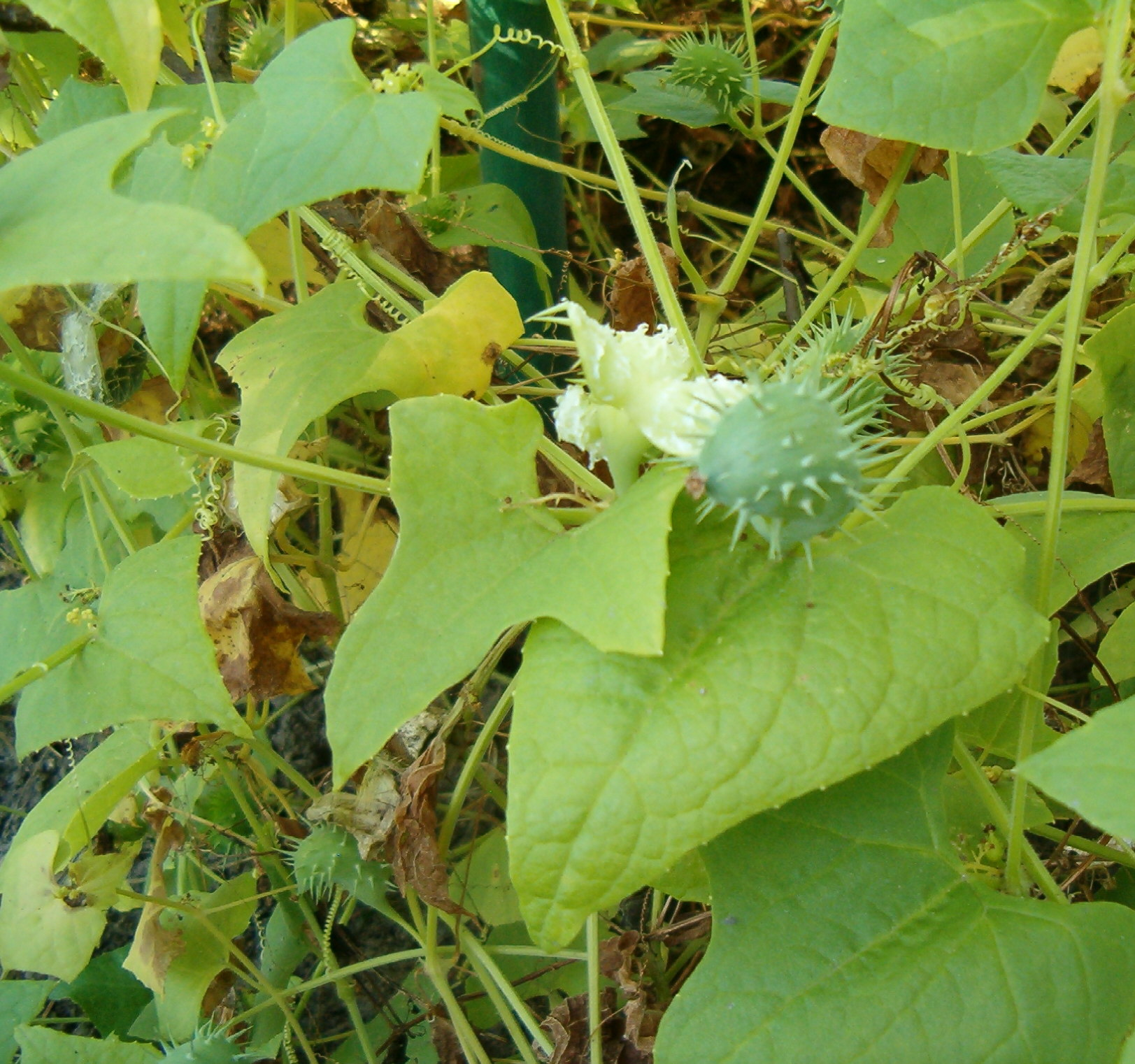 Location: Botanical Gardens Berlin Habitus, Leaves, Flowers and Fruits